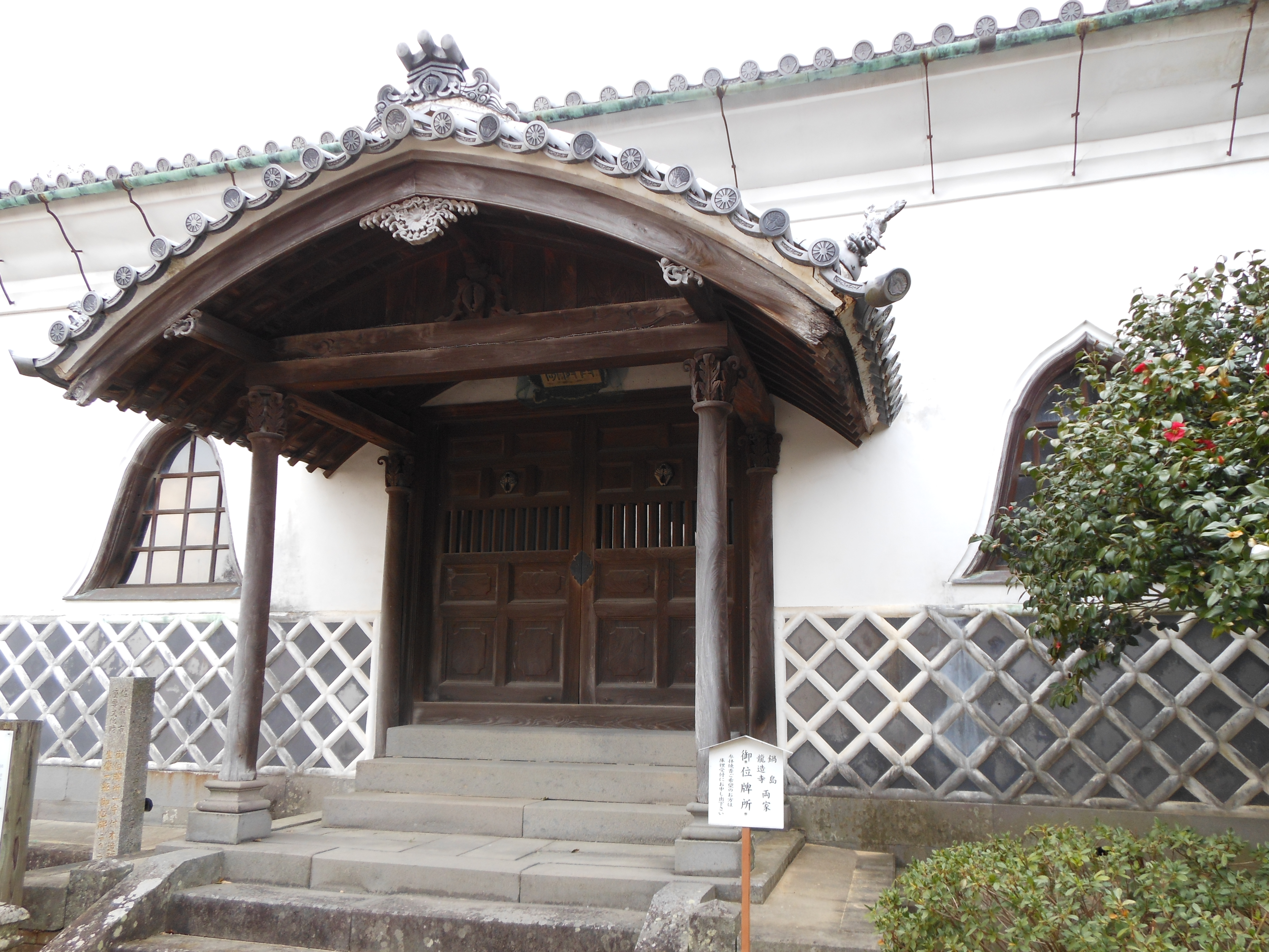 "Oihaidō", a Buddhist mortuary tablet's (Spirit tablet) house of Ryūzōji clan and Nabeshima clan persons, in Kōden-ji Temple, in Saga City.